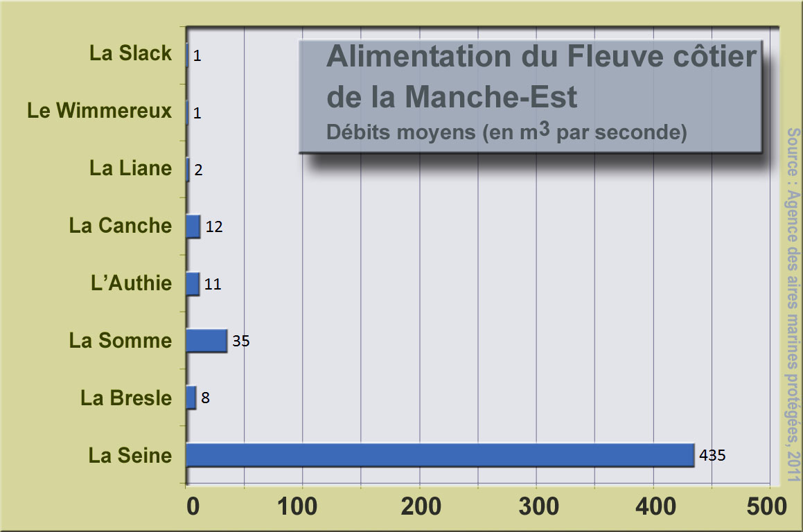 Diagrammatic representation of the average flows of french rivers that feed via their estuaries a "coastal river" in the Eastern Channel, which is in France the subject of a proposed Marine Nature Reserve (subject to public inquiry in 2011). We see here the major importance of the Seine river. The mainstream "flatten" against the shoreline waters, creating a hydrographic (and ecological) feature wich consists of a water less salty and less dense, which behaves like a river along the coast of Picardy and Pas-de-Calais then tend to be diluted in the North Sea after the Cap Gris-Nez and Blanc-Nez. while mixing with the addition of Aa river, of yser riverr, and especially of the Scheldt river.